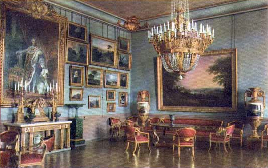 Postcard, the Empire salon, Guest Apartments